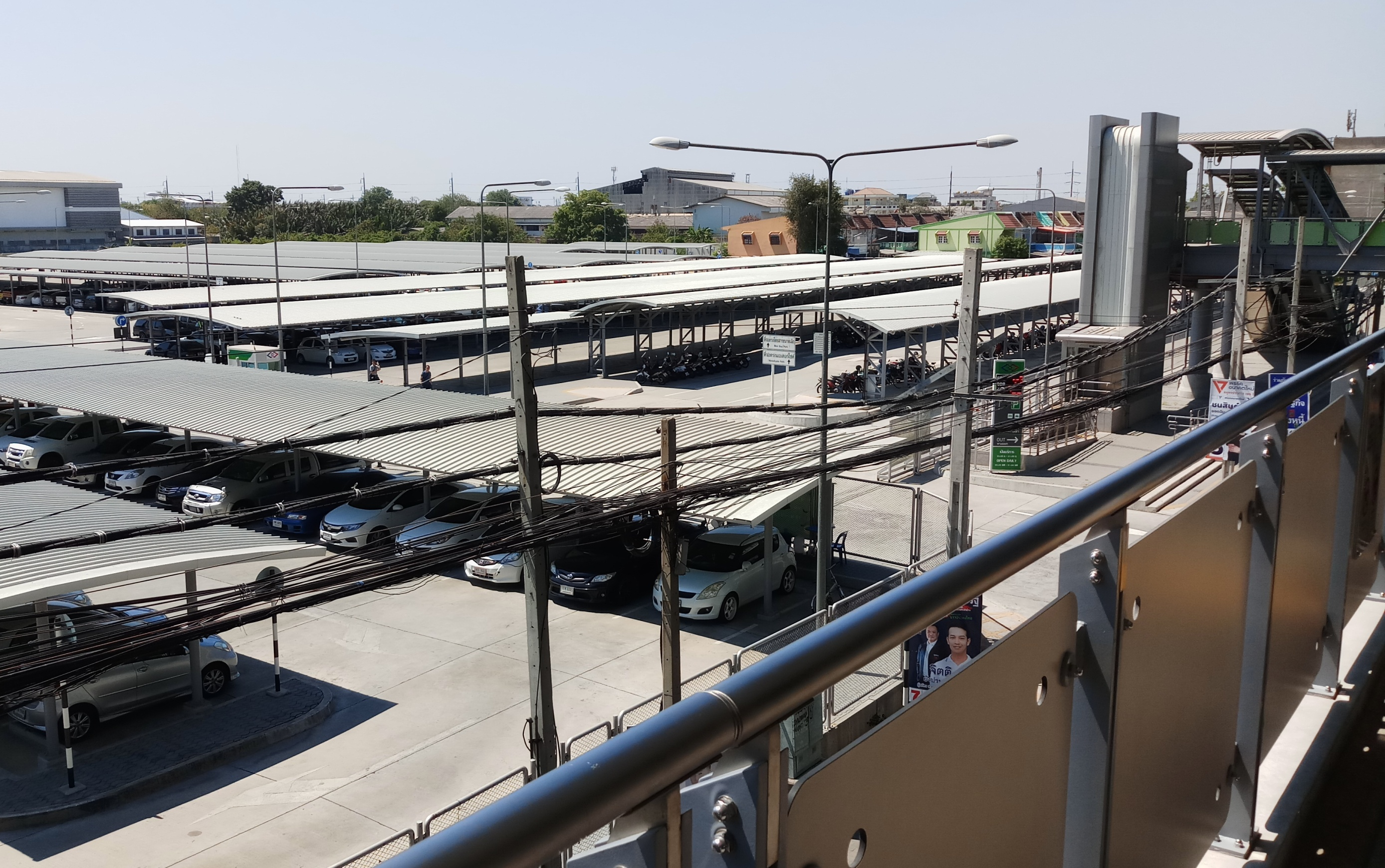 Park&Ride at BTS Kheha Station